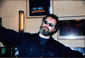 Roman Latkovic, Croatian author, filmmaker, journalist, globetrotter